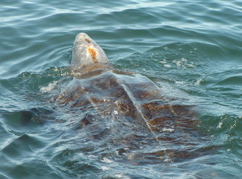 Leatherback sea turtle with head above water (Dermochelys coriacea)